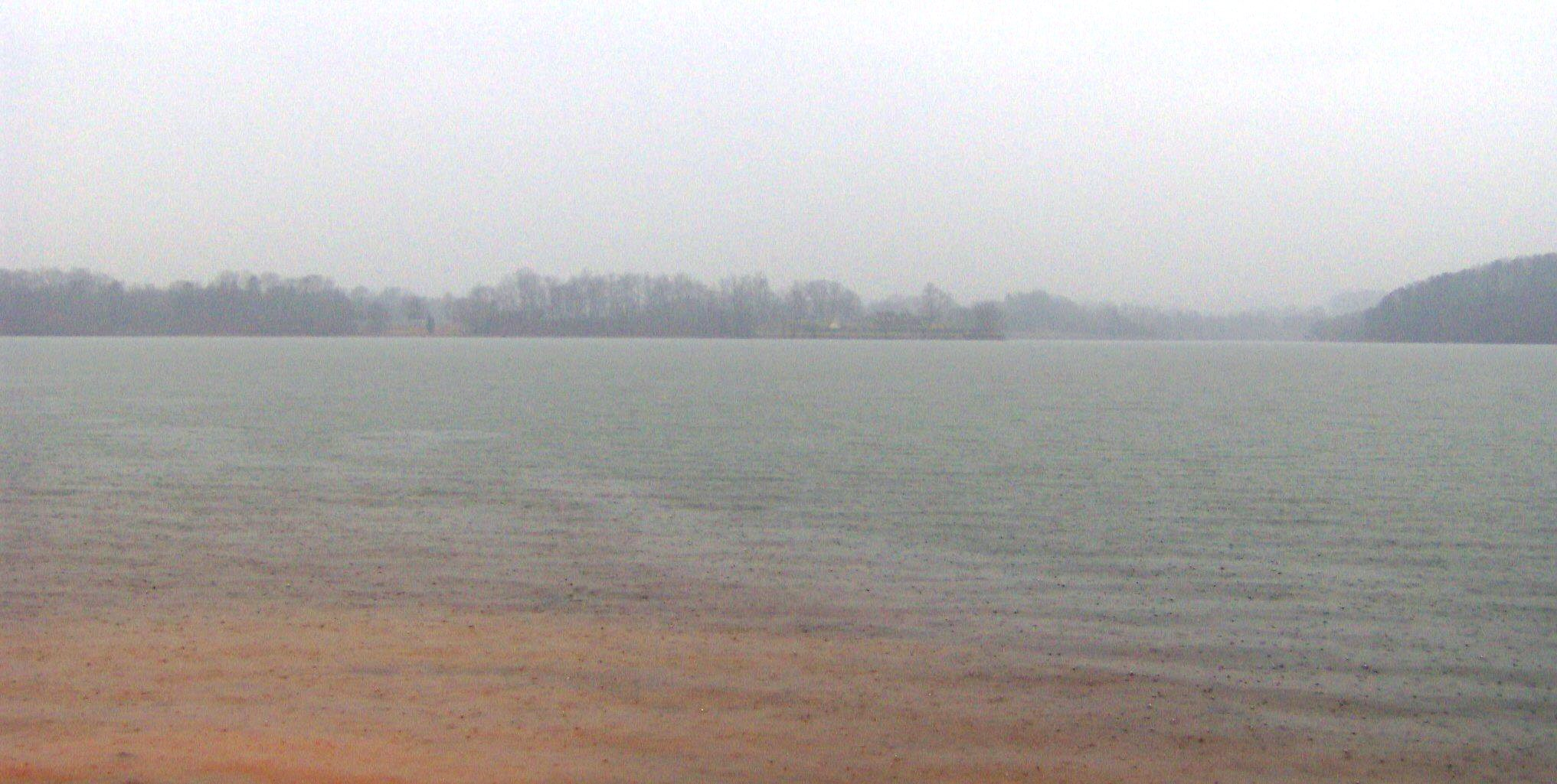 The Little Tennessee River (Tellico Lake), looking north from the McGhee-Carson Unit of the Tellico Lake Wildlife Management Area, located in the southeastern United States. Before this part of the river was inundated by the construction of Tellico Dam, several archaeological sites would have been visible, including the Icehouse Bottom site (immediately below), parts of the Thirty Acre Island and Tellico Blockhouse sites (on the right), and parts of the Tuskegee and Fort Loudoun sites (on the left). The modern replica of Fort Loudoun is barely visible through haze, toward the center of the picture.